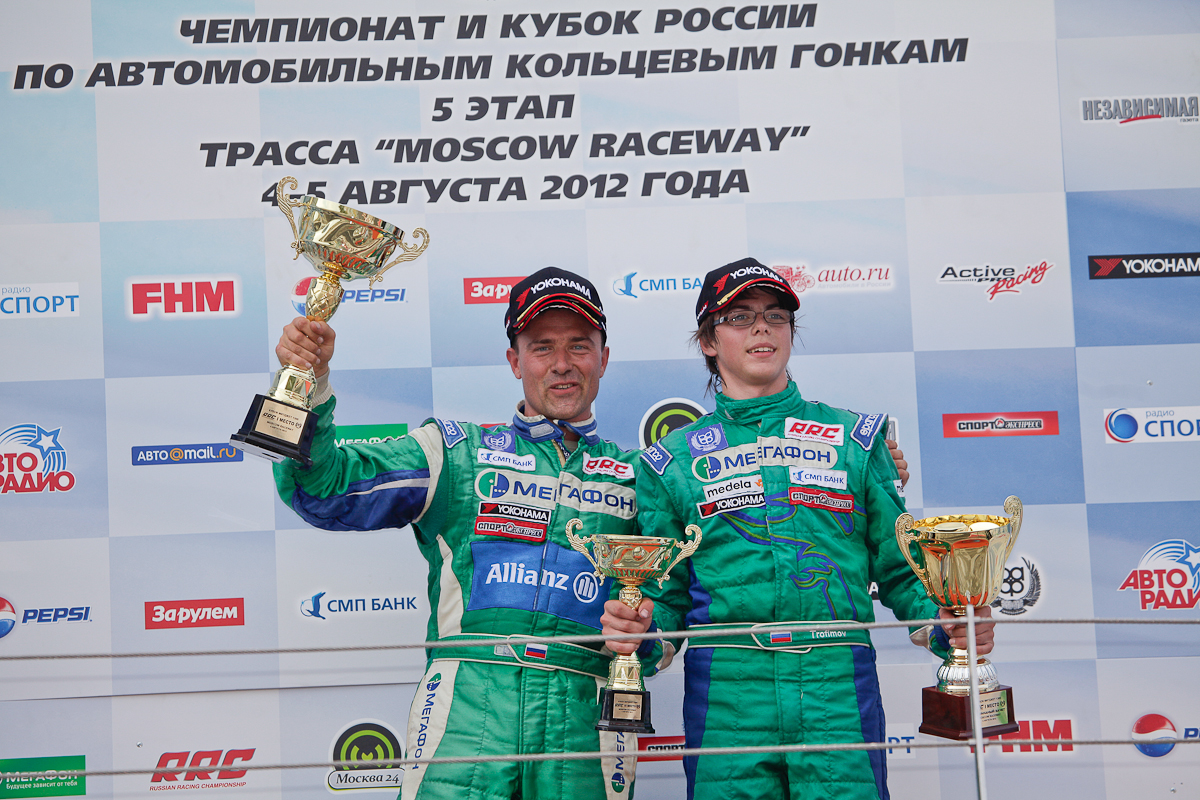 гонки